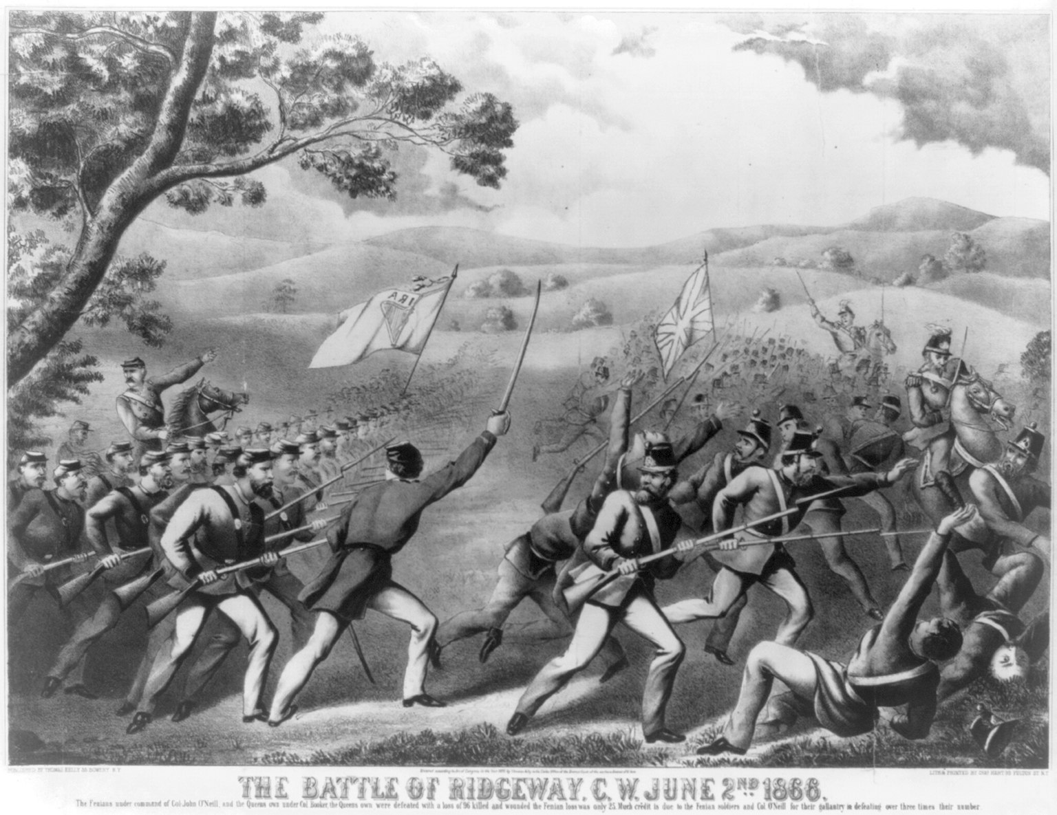 Title: The battle of Ridgeway, C.W. June 2nd 1866 Abstract: Print shows Fenian Brotherhood (Irish American) troops under the command of Colonel John O'Neill charging the retreating Queen's Own Rifles of Canada commanded by Colonel A. Booker at Ridgeway, Ontario, during the Fenian invasion of Canada. Physical description: 1 print : lithograph. Notes: Entered according to Act of Congress in the year 1870 by Thomas Kelly in the Clerks Office of the District Court of the southern District of N. York.; Caption continues: The Fenians under command of Col. John O'Neill, and the Queens own under Col. Booker, the Queens own were defeated with a loss of 96 killed and wounded[,] the Fenian loss was only 25. Much credit is due to the Fenian soldiers and Col. O'Neill for their gallantry in defeating over three times their number.; lith. & printed by Chas. Hart 99 Fulton St., N.Y.; Title from item.